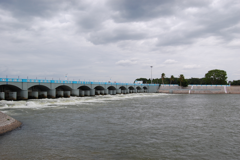 Kallanai at Thiruchirapalli district, Tamil Nadu